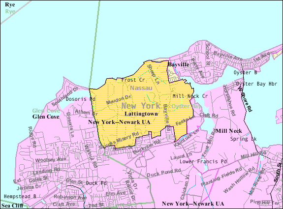 U.S. Census 2000 reference map for Lattingtown, New York